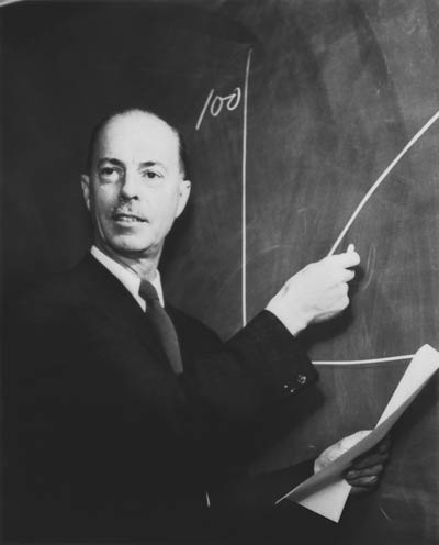 Colin MacCleod, geneticist